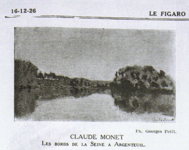 This is a photo of Bords de la Seine a Argenteuil found in an obituary of Monet, published in Le Figaro Artistique, on the 16th December, 1926, written by Rene Chavange.